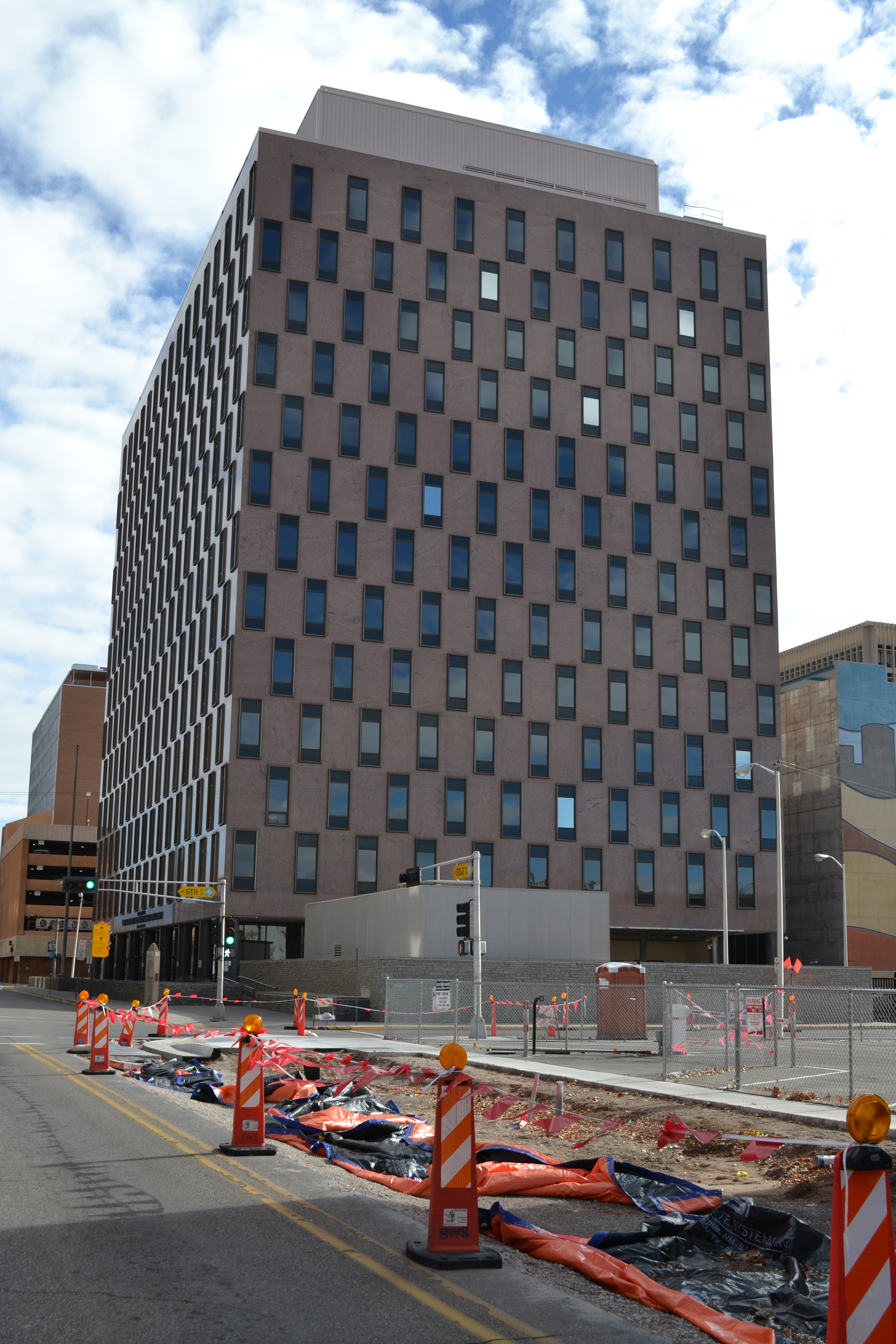 The Dennis Chavez Federal Building in Albuquerque, NM, built in 1965.